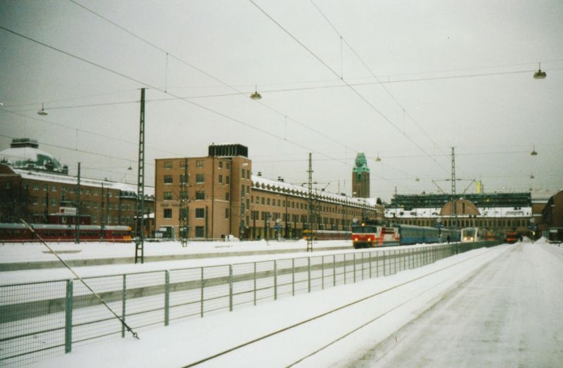 Helsinki Central railway station in Helsinki, Finland. Taken in December 1996. The blue train is Repin that goes to St. Petersburg Russia. To the right from it there is an Italian made shuttle train Pendolino going to Turku.